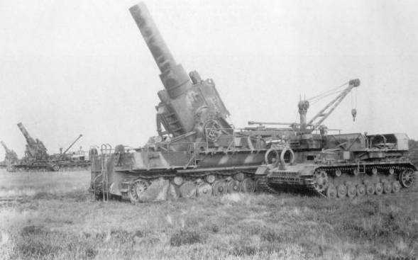 A section of three Mörser Karl Gerät 041 in action in Poland in 1944. The 'Munitionsträger' is shown on the extreme right. These mortars have the 540 mm tube fitted